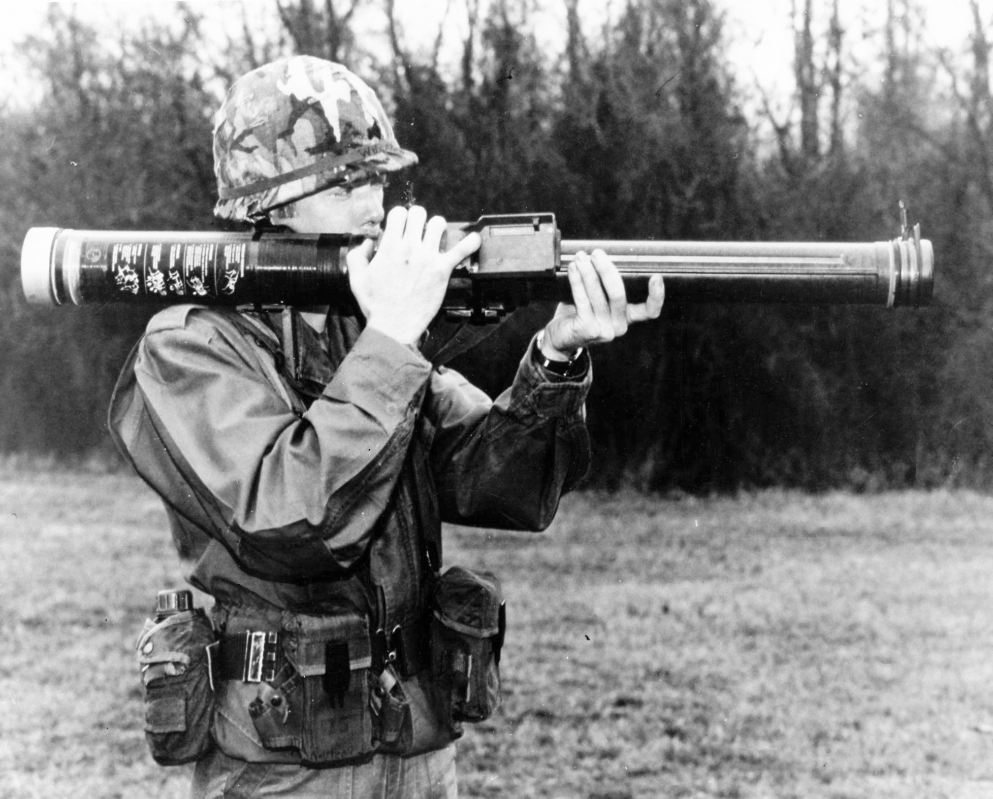 Photo issued to the news media in 1981 of the FGR-17 VIPER individual antitank weapon